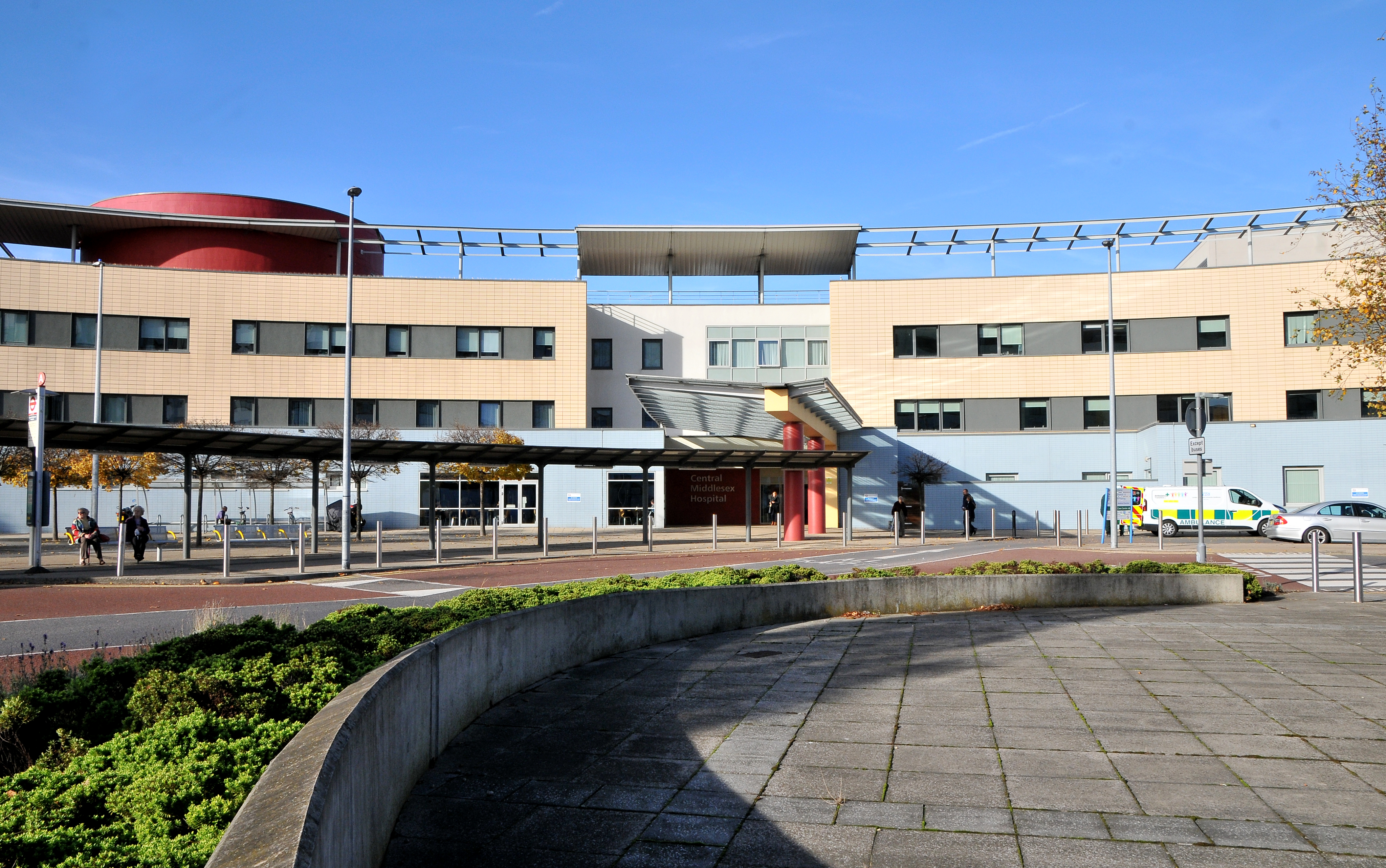 Main entrance, concourse cover leading to the main entrance, and surrounding buildings at Central Middlesex Hospital